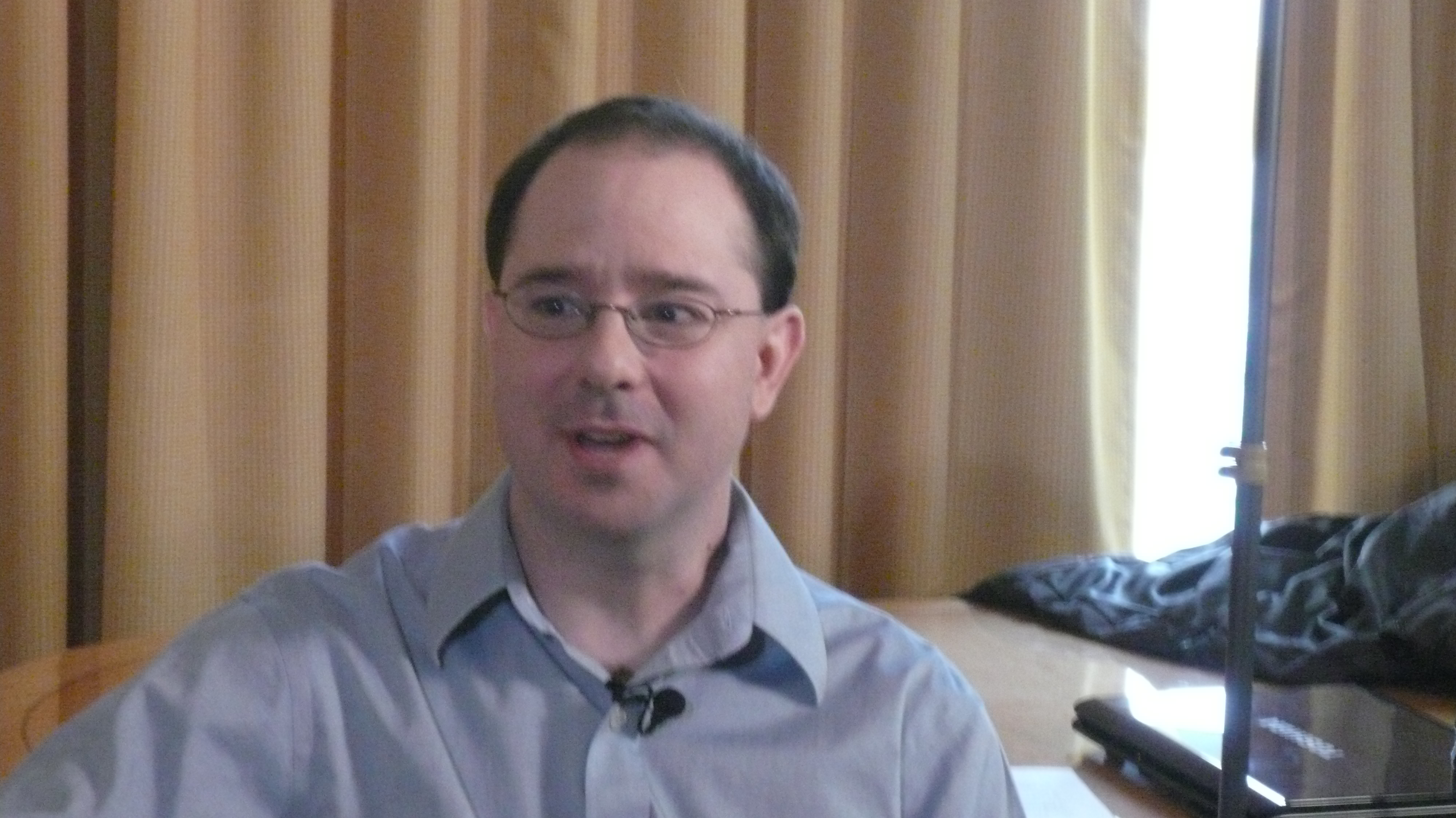 Author John Scalzi.